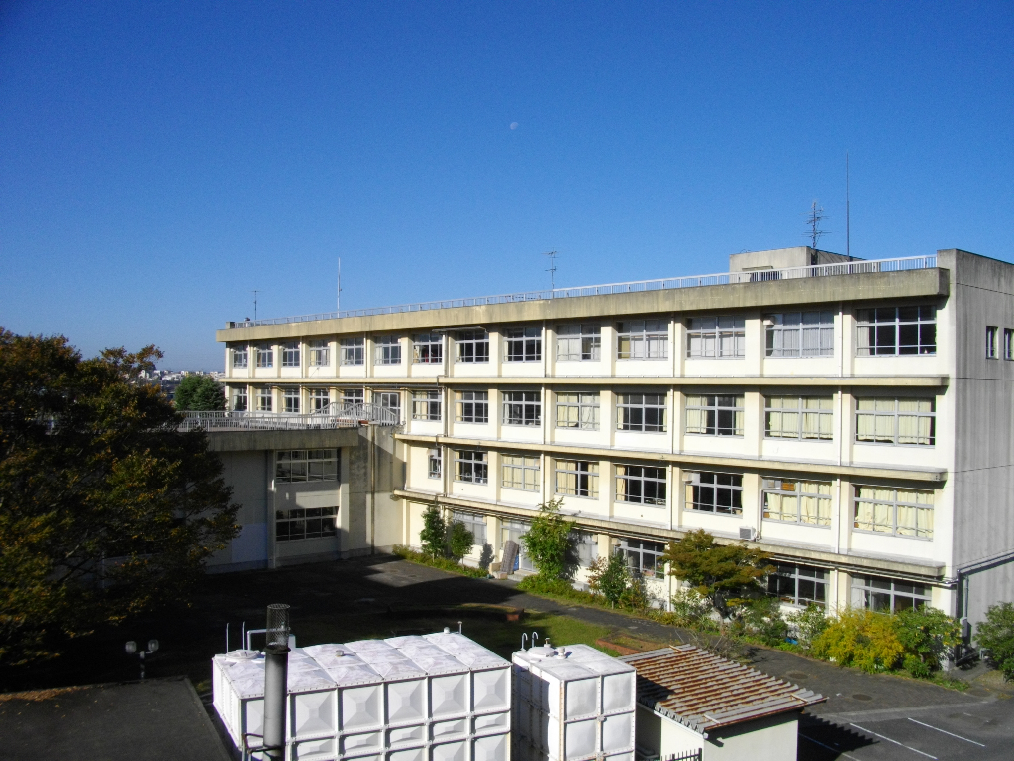 Narita-Kita High School